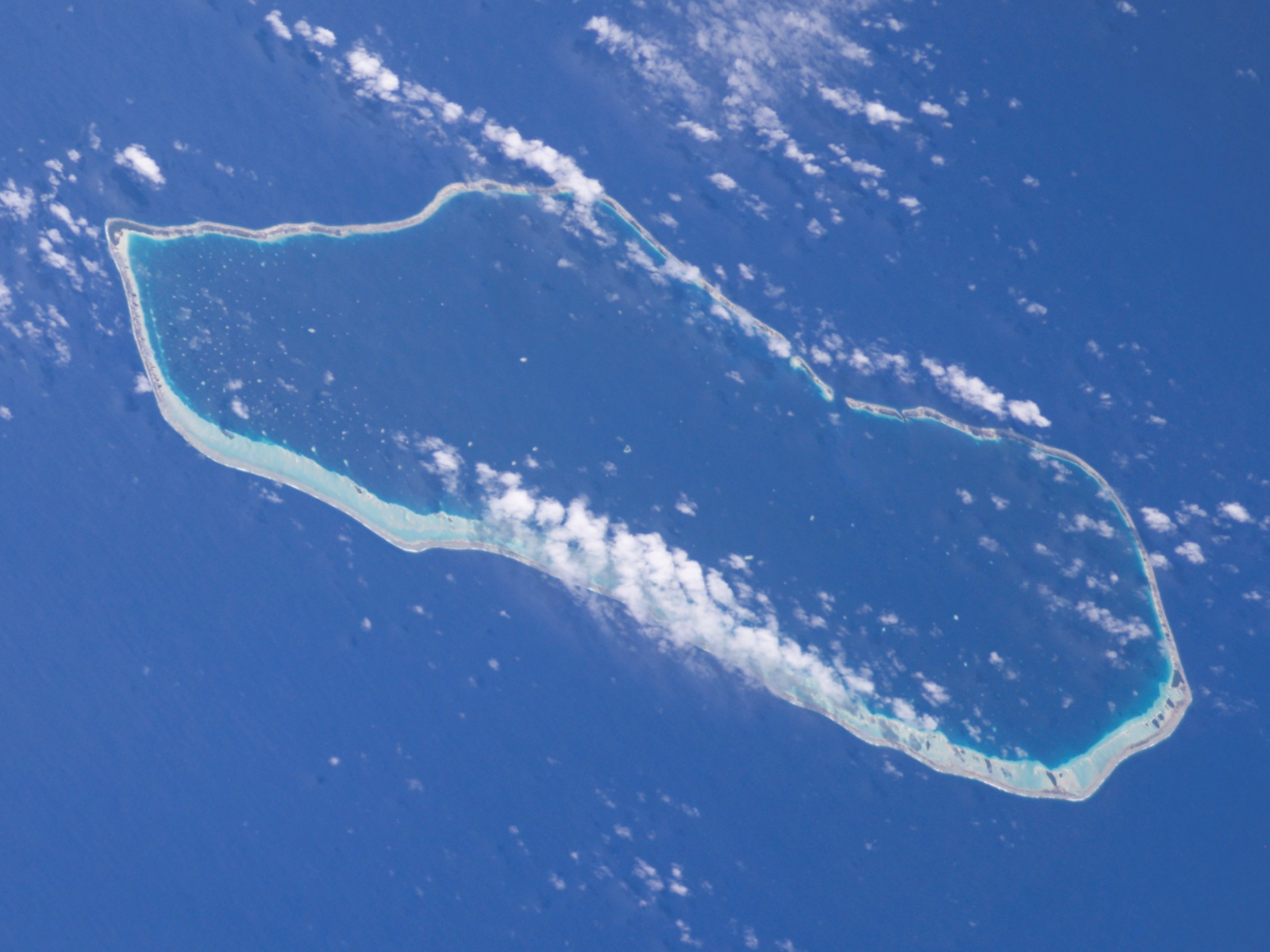 NASA picture